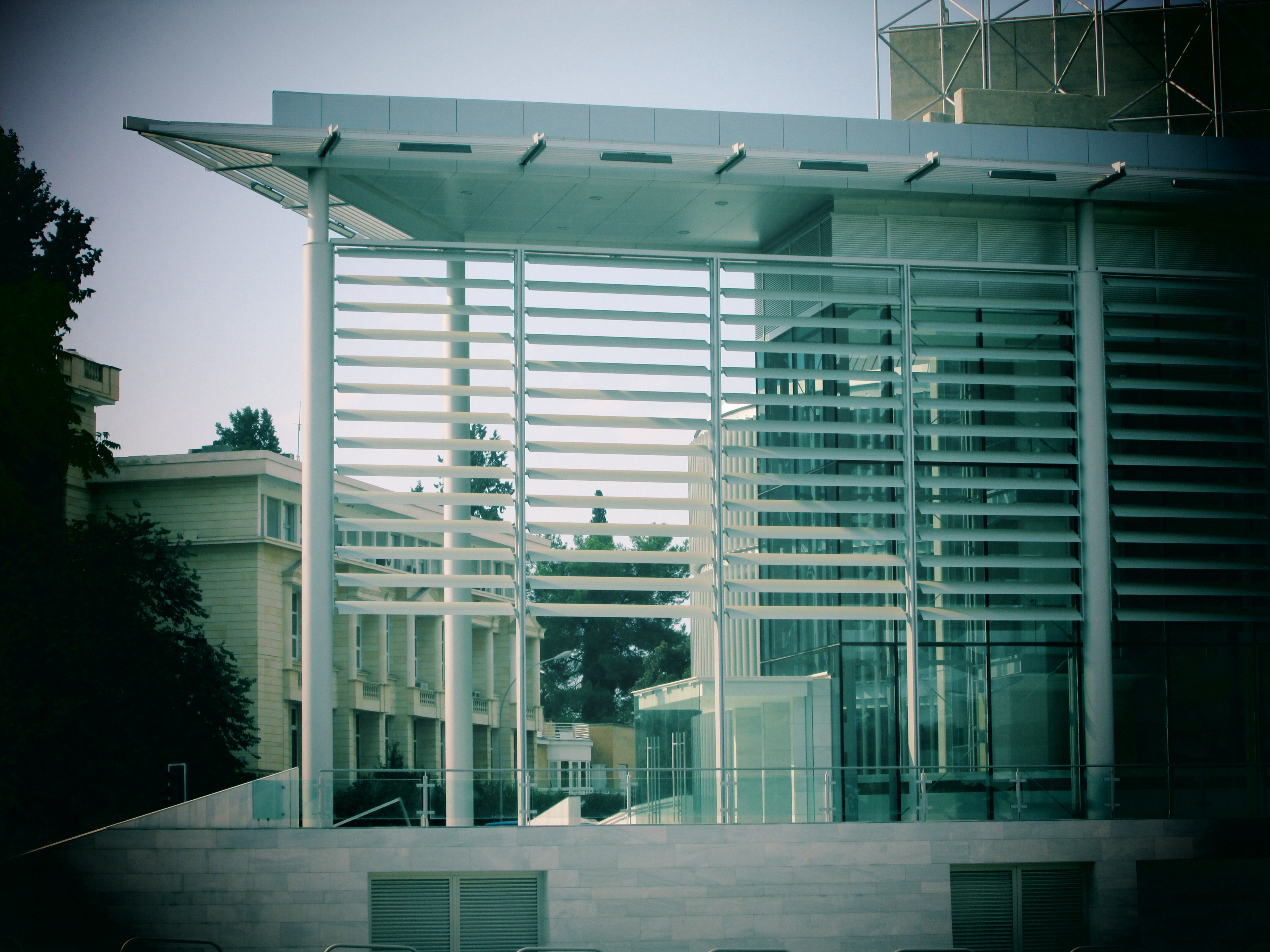 Music and Art venue in Nicosia Republic of Cyprus